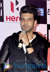 Karan Kundra at the launch of Roadies X2